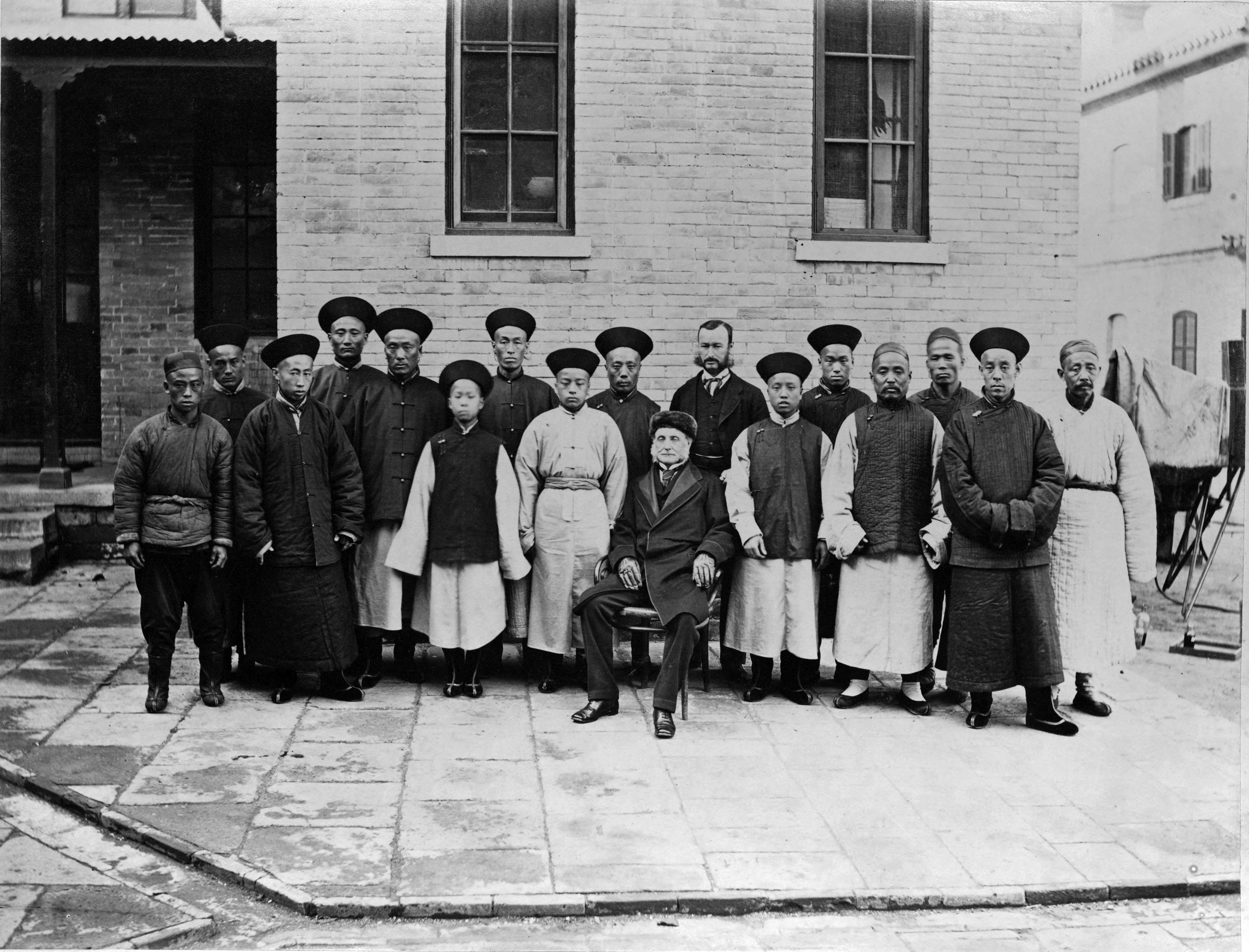 Photograph in Album of photographs of Peking and its environs.